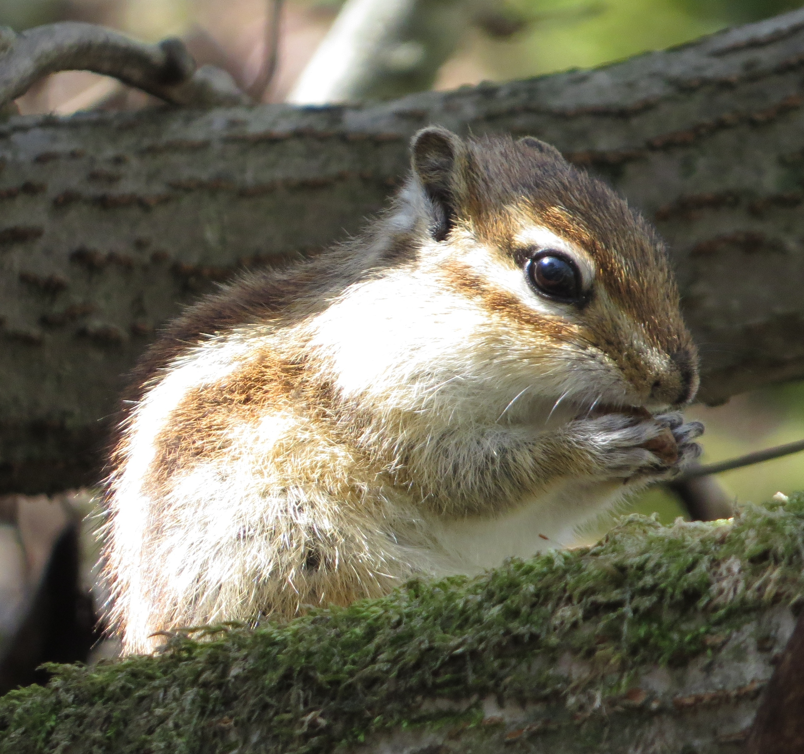 Tamias sibiricus barberi, eating nuts, in Mount Oike, Higashiomi, Shiga prefecture, Japan.